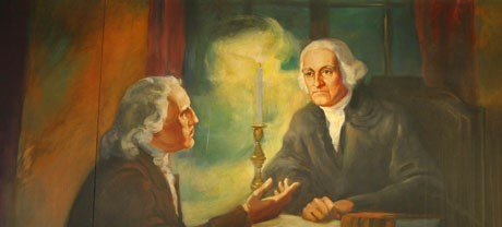 "mural painted in 1934 by Delos Palmer, a prolific Stamford artist, depicting Abraham Davenport standing before Governor Jonathan Trumbull on the famous Dark Day, the 19th of May, 1870. The nationally funded W.P.A. Federal Arts Project in Connecticut commissioned the mural during the Great Depression, as part of an effort to put artists to work embellishing public buildings."